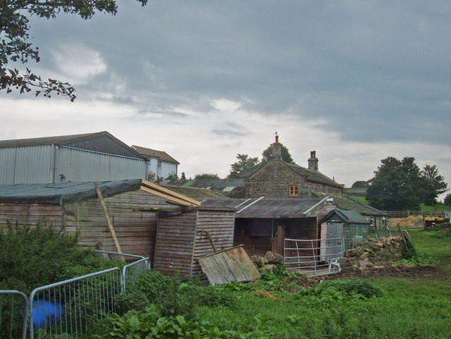 Low Ash Farm south of The Nosegay, Thackley. Situated near Amblers Close.